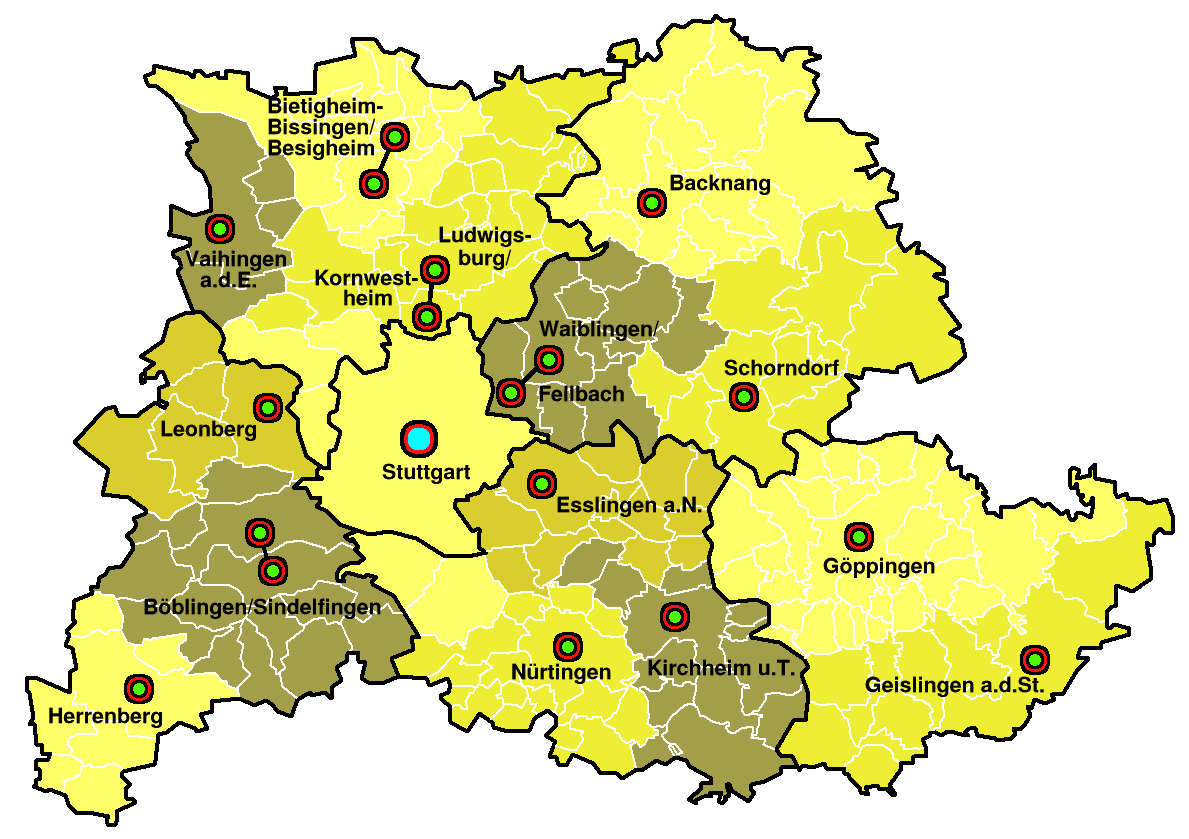 Maps of planning regions (Mittelbereiche) in the region Stuttgart, Baden-Württemberg, Germany